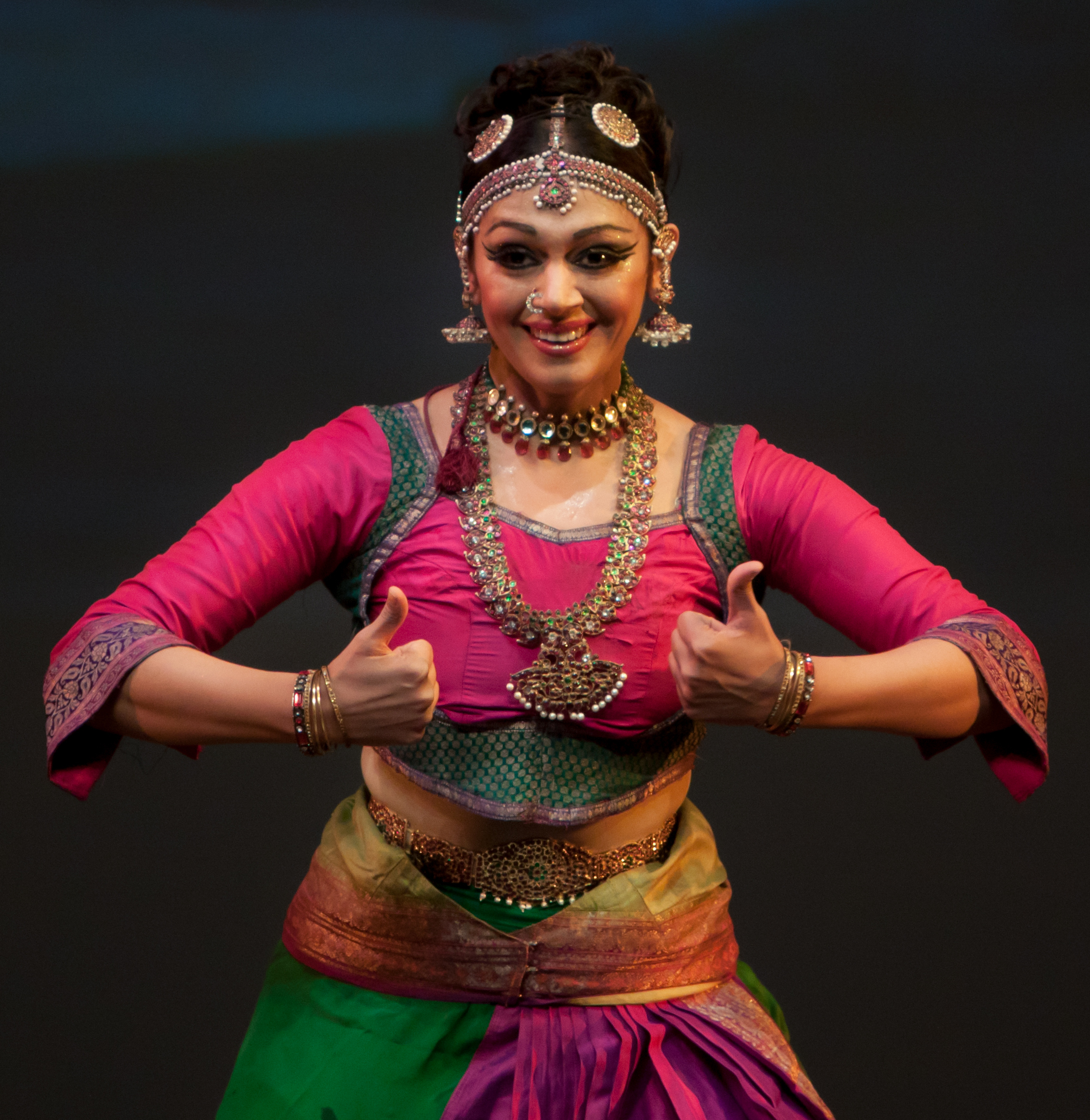 This media file is uploaded with Malayalam loves Wikimedia event - 2.